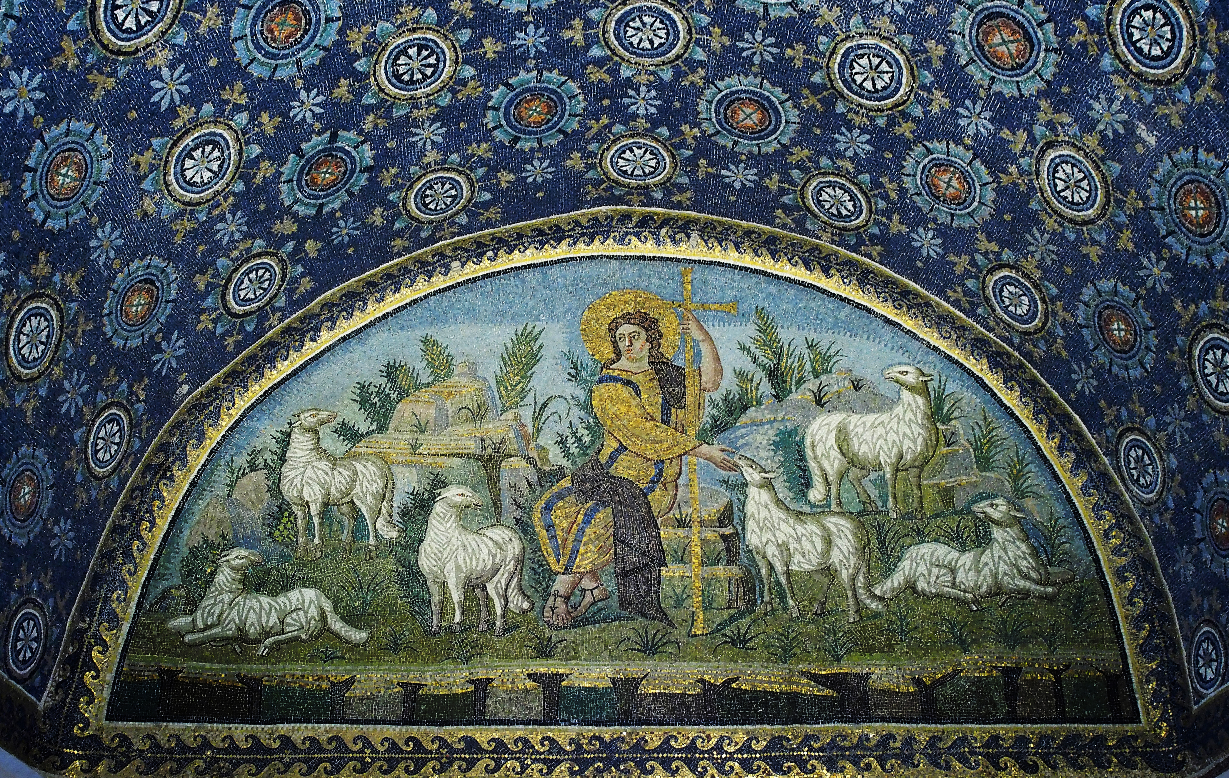 "The good Shepherd" mosaic in mausoleum of Galla Placidia. UNESCO World heritage site. Ravenna, Italy. 5th century A.D.